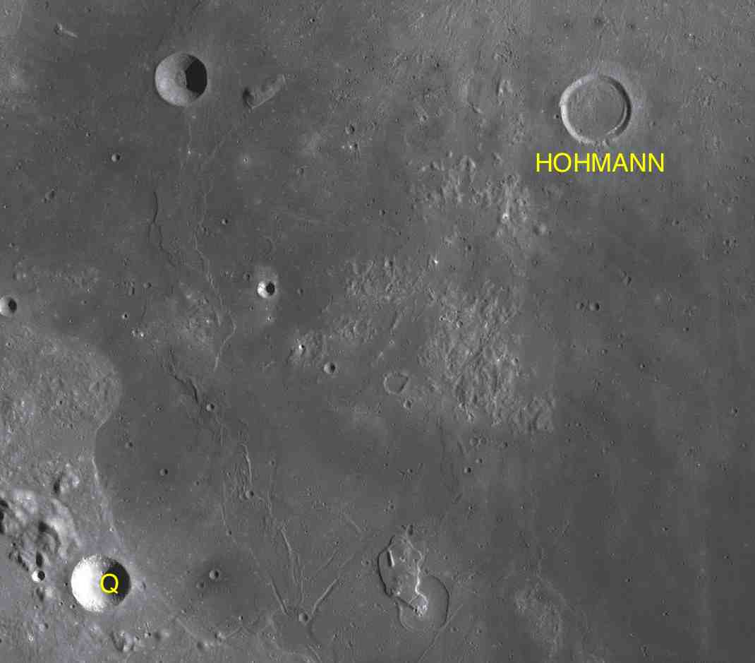 Part of the chart LAC-108 used for the presentation